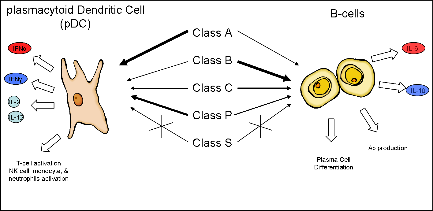 author: JohnDoe001 source: Created using Microsoft Powerpoint and Publisher I created this diagram